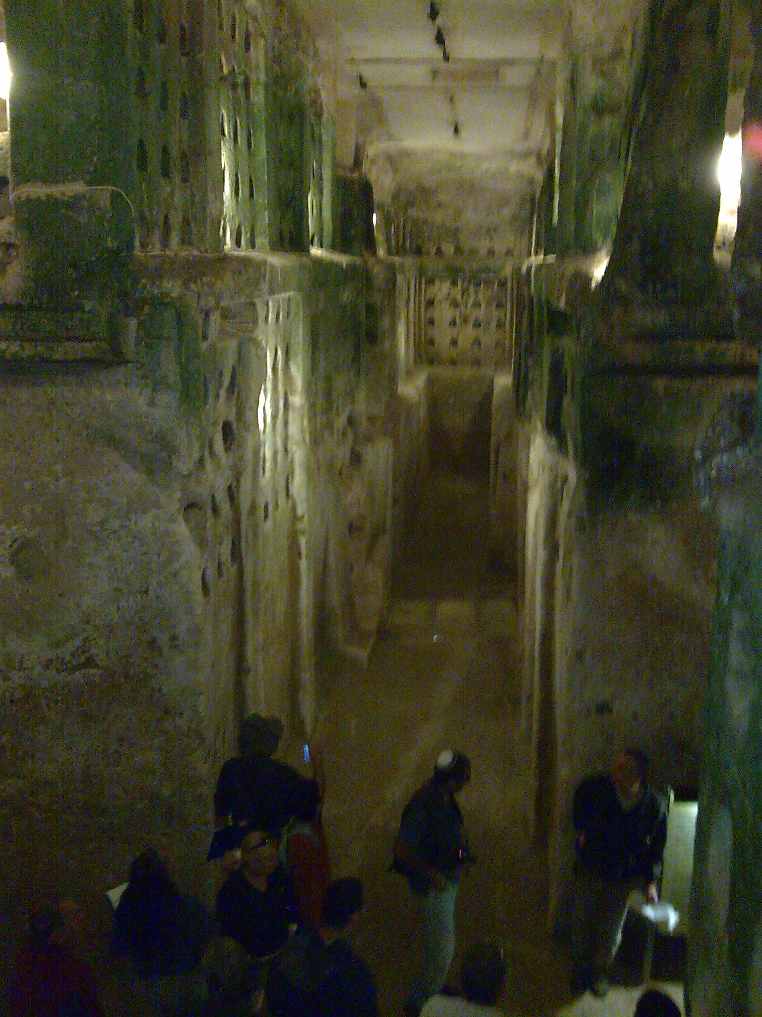 The Colombarium at Tel Maresha